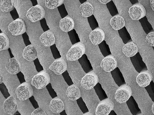 This image is of a bioglass lattice, produced by 3D printing. This image covers an area of 2.5 x 2 mm.